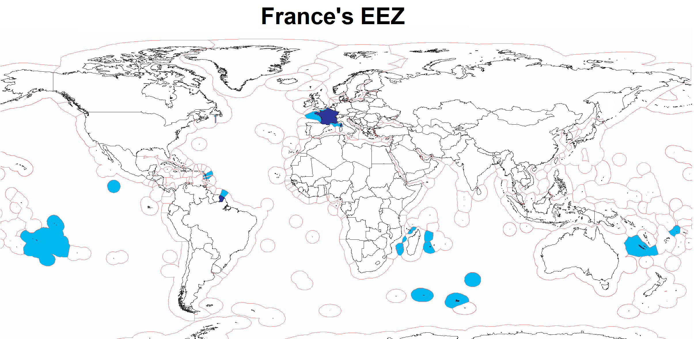 Map of France's Exclusive Economic Zone